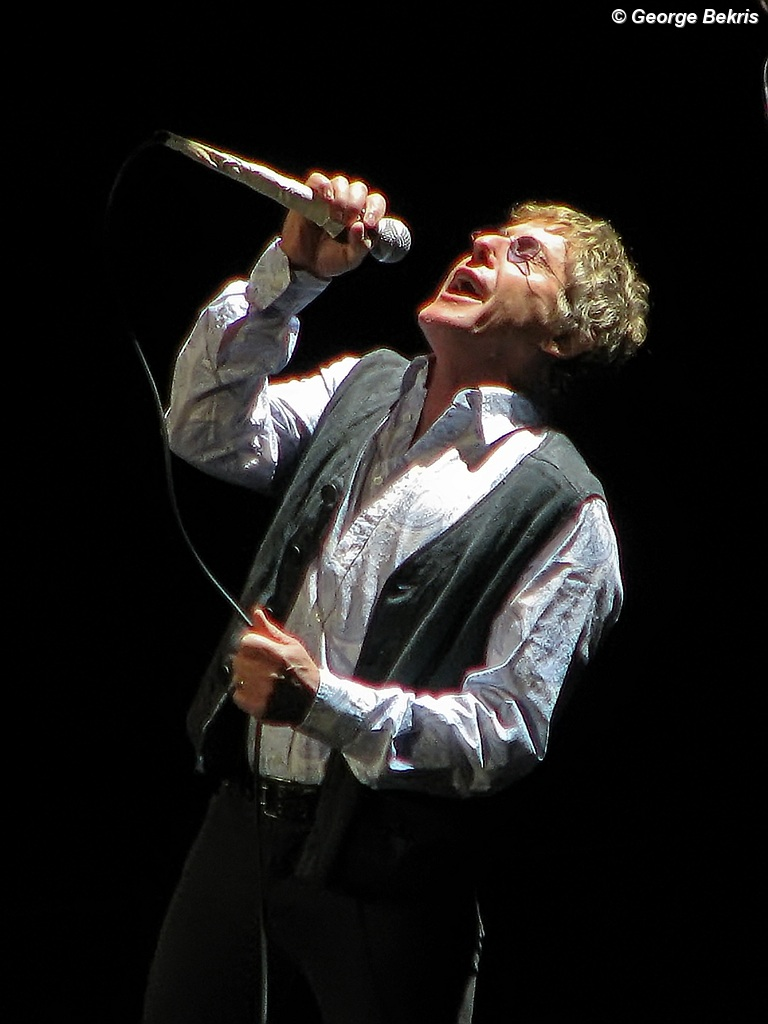 Roger Daltrey of The Who.